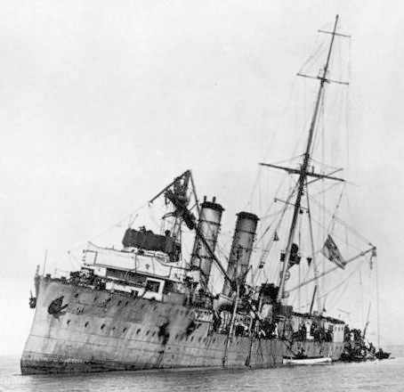 German minelayer SMS Albatross beached off Gotland